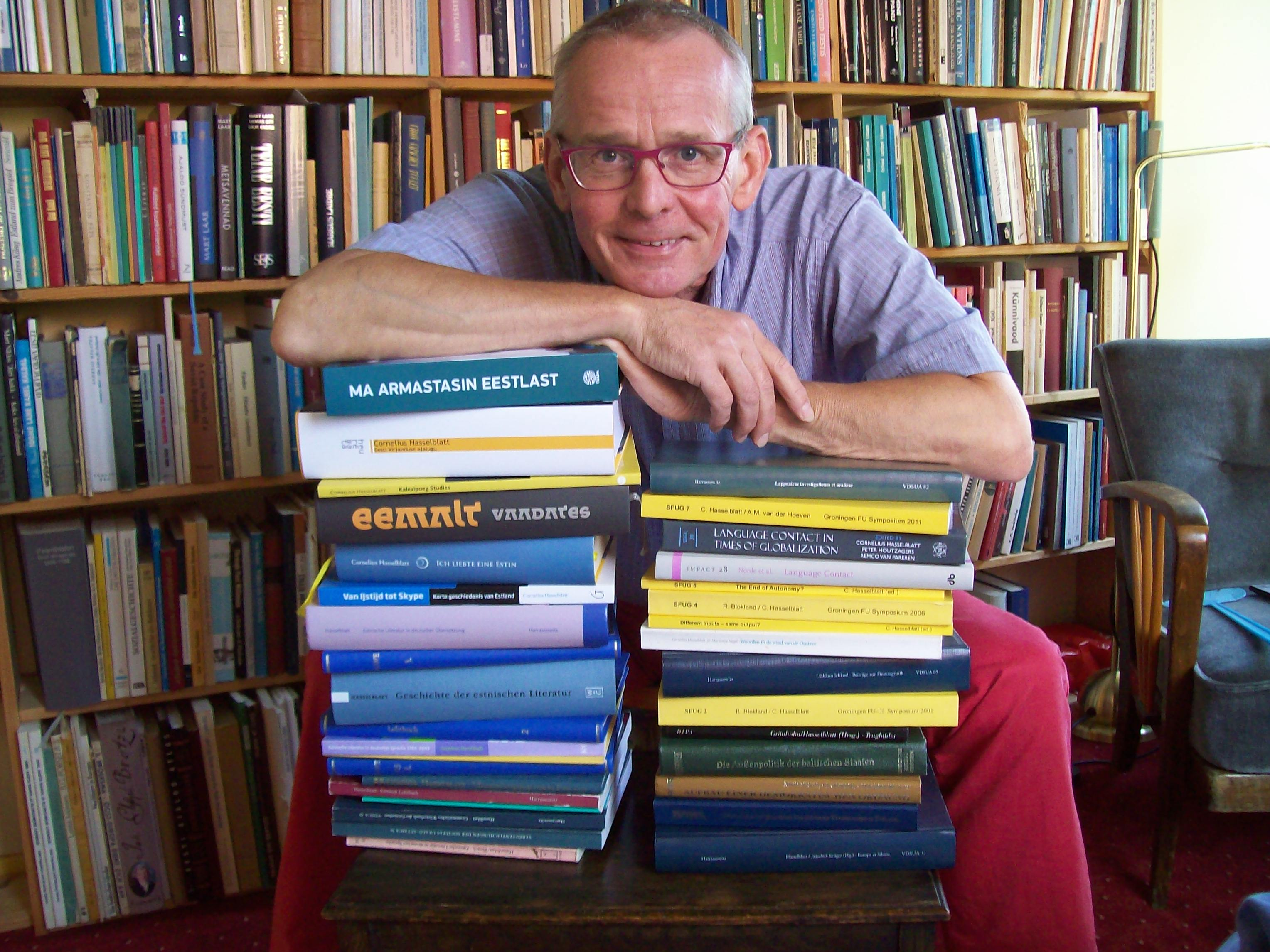 Cornelius Hasselblatt and his books in 2016